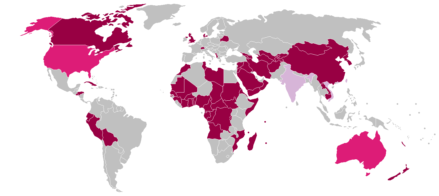 Worldwide laws regarding killing cats for consumption Cat killing is legal Cat killing is partially illegal1 Cat killing is illegal Unknown 1the laws vary internally and/or they include exceptions for ritual/religious slaughter